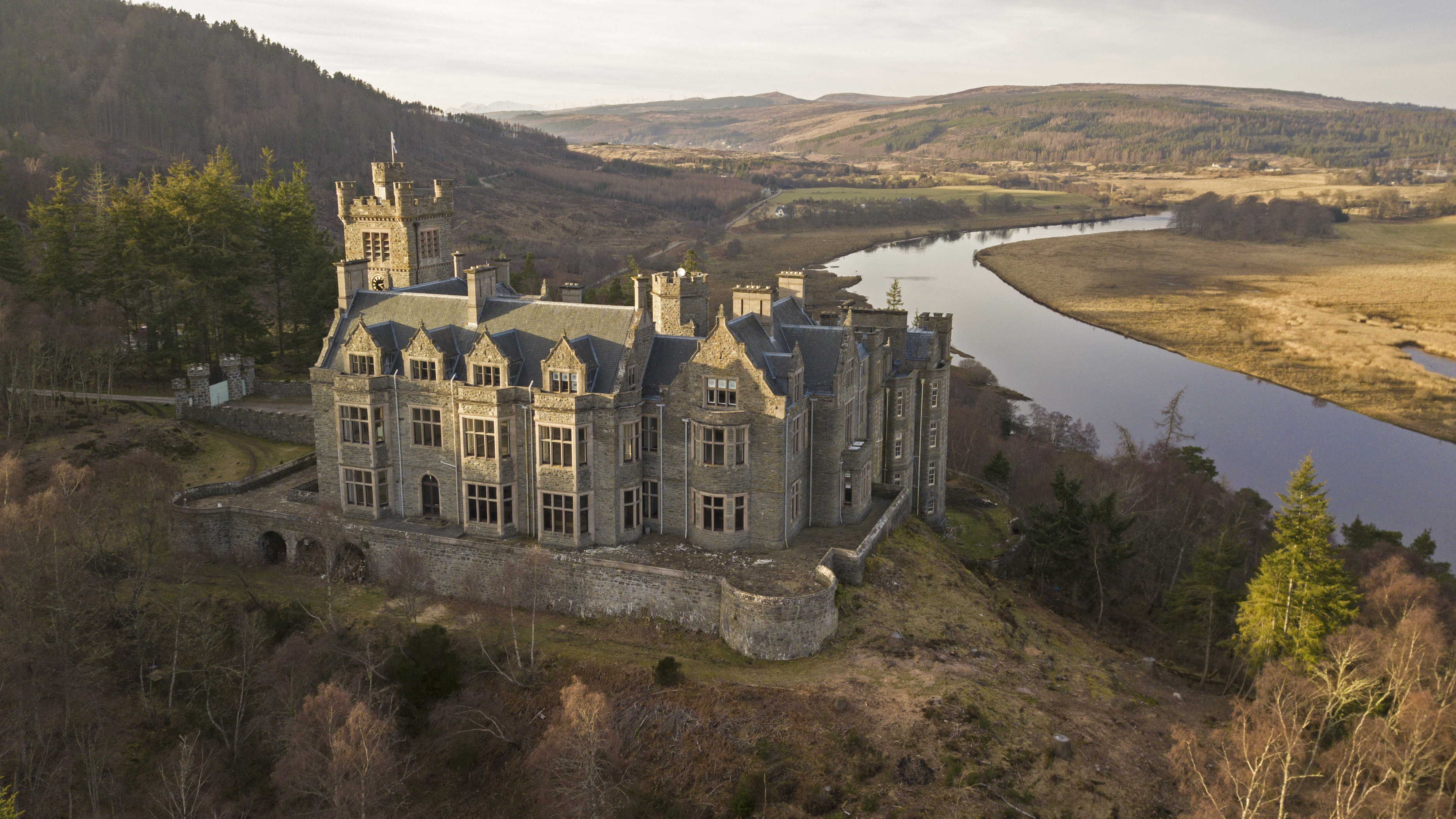 Aerial photography (drone) of Carbisdale Castle.